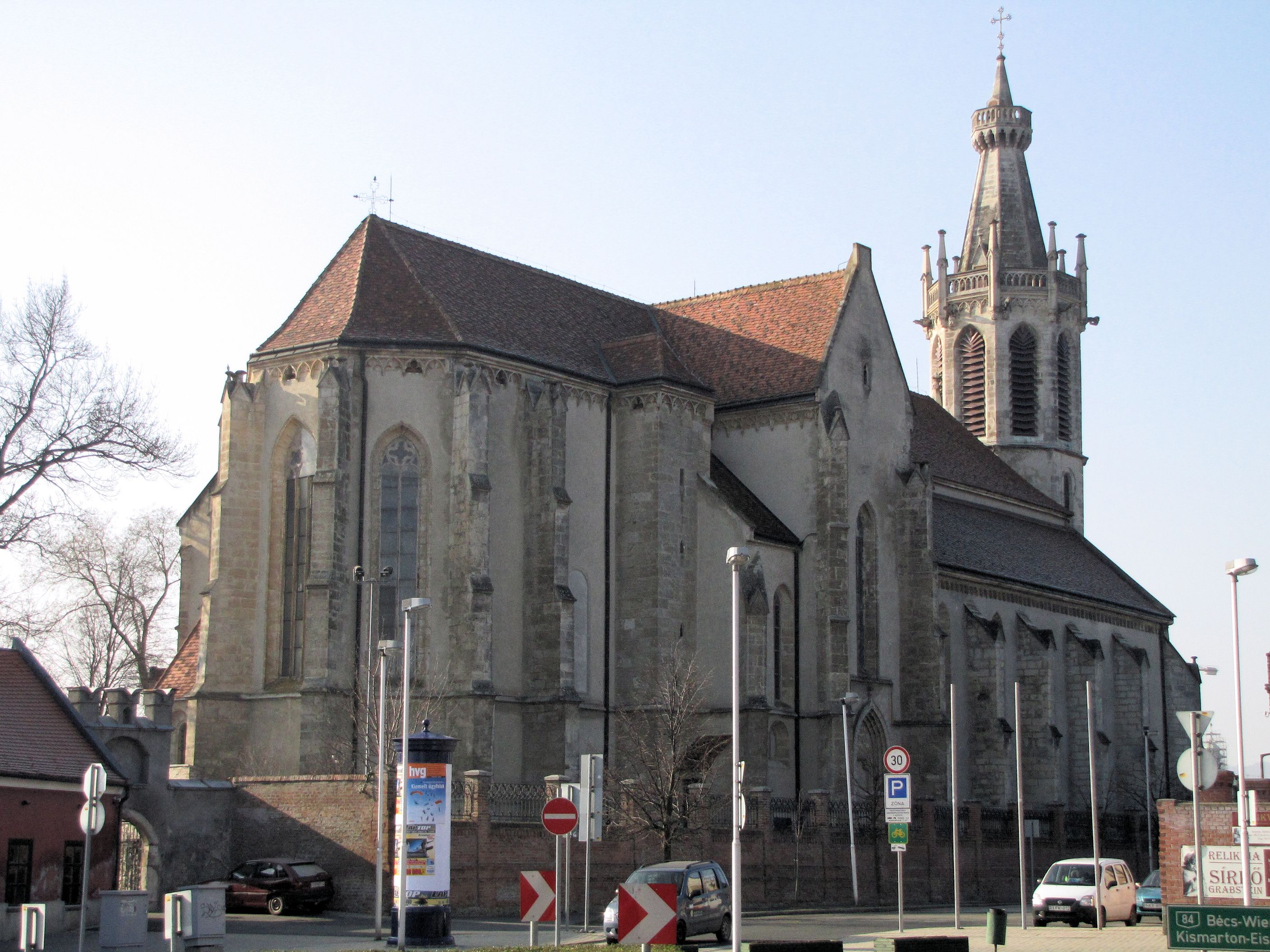 Sopron, Church of St Michael.